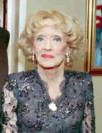 Actress Bette Davis at the White House, 1987.